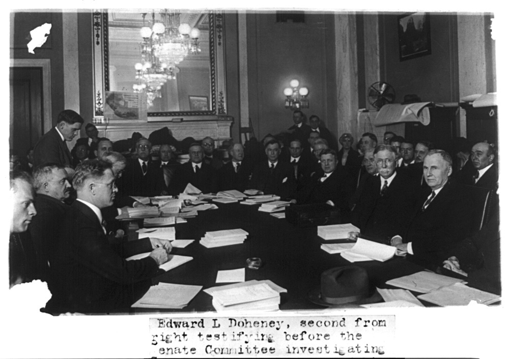 ORIGINAL SOURCE TITLE: Edward L. Doheny testifying before the Senate Comm. investigating the Tea Pot Oil Leases CALL NUMBER: LOT 12296, v. 1 [item] [P&P] Check for an online group record (may link to related items) REPRODUCTION NUMBER: LC-USZ62-51319 (b&w film copy neg.) No known restrictions on publication. MEDIUM: 1 photographic print. CREATED/PUBLISHED: 1924 Jan. 24. NOTES: Title and other information transcribed from caption card and item. In album: Washington, D.C., 1924, v. 1, Herbert E. French, National Photo Company. National Photo Company Collection (Library of Congress). No. 28779. Chron. album. Doheny, Edward Laurence, 1856-1935. Caption card tracings: Tea Pot; Congress; PI; Shelf. FORMAT: Photographic prints 1920-1930. REPOSITORY: Library of Congress Prints and Photographs Division Washington, D.C. 20540 USA DIGITAL ID: (b&w film copy neg.) cph 3a51362 CARD #: 2002695650